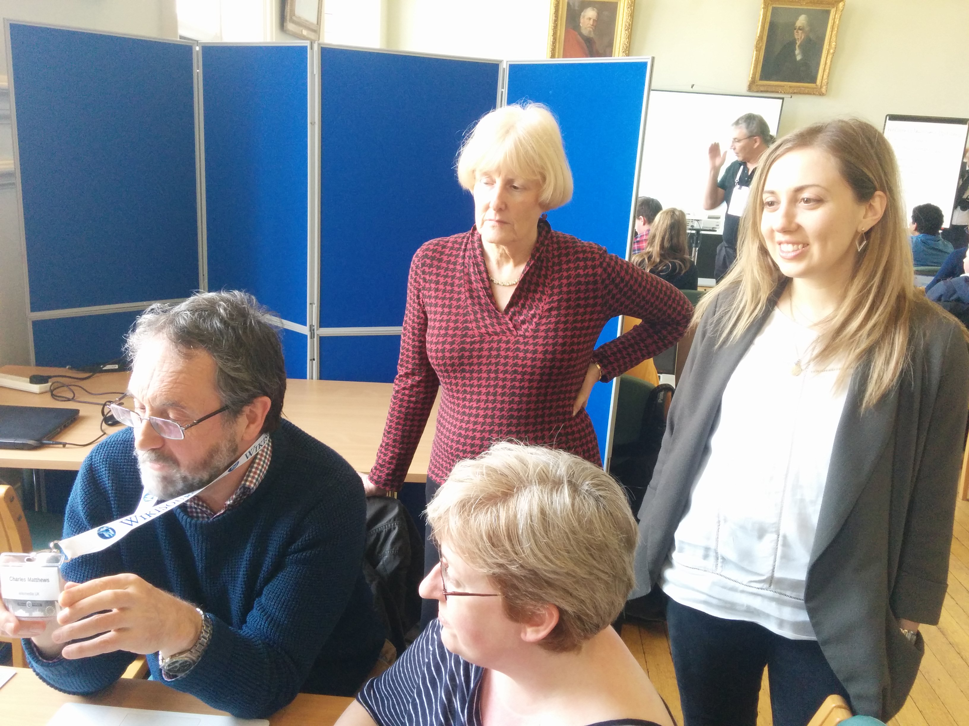 Charles Matthews at Women in Red editathon at Newnham College